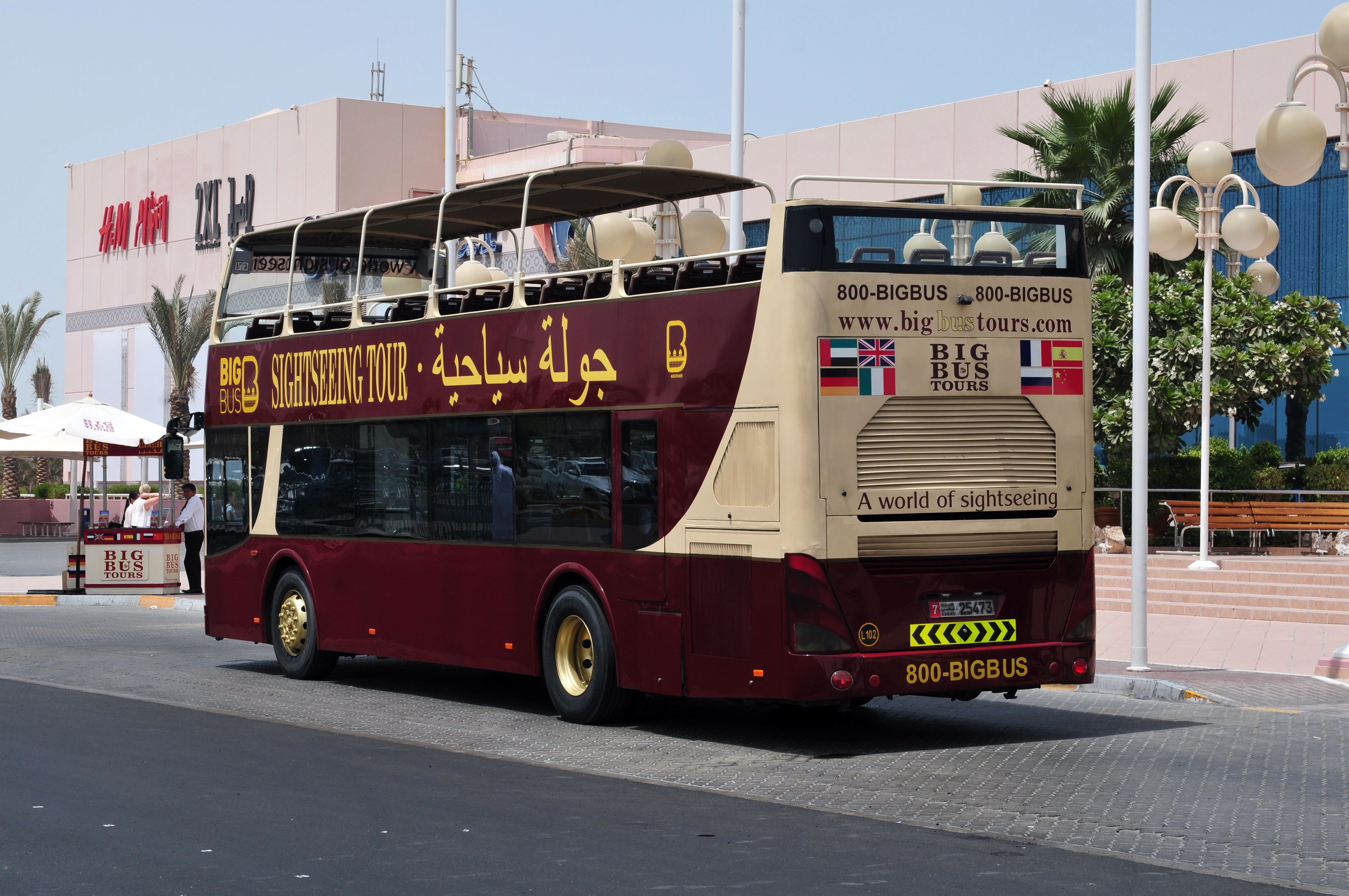 Big Bus in Abu Dhabi